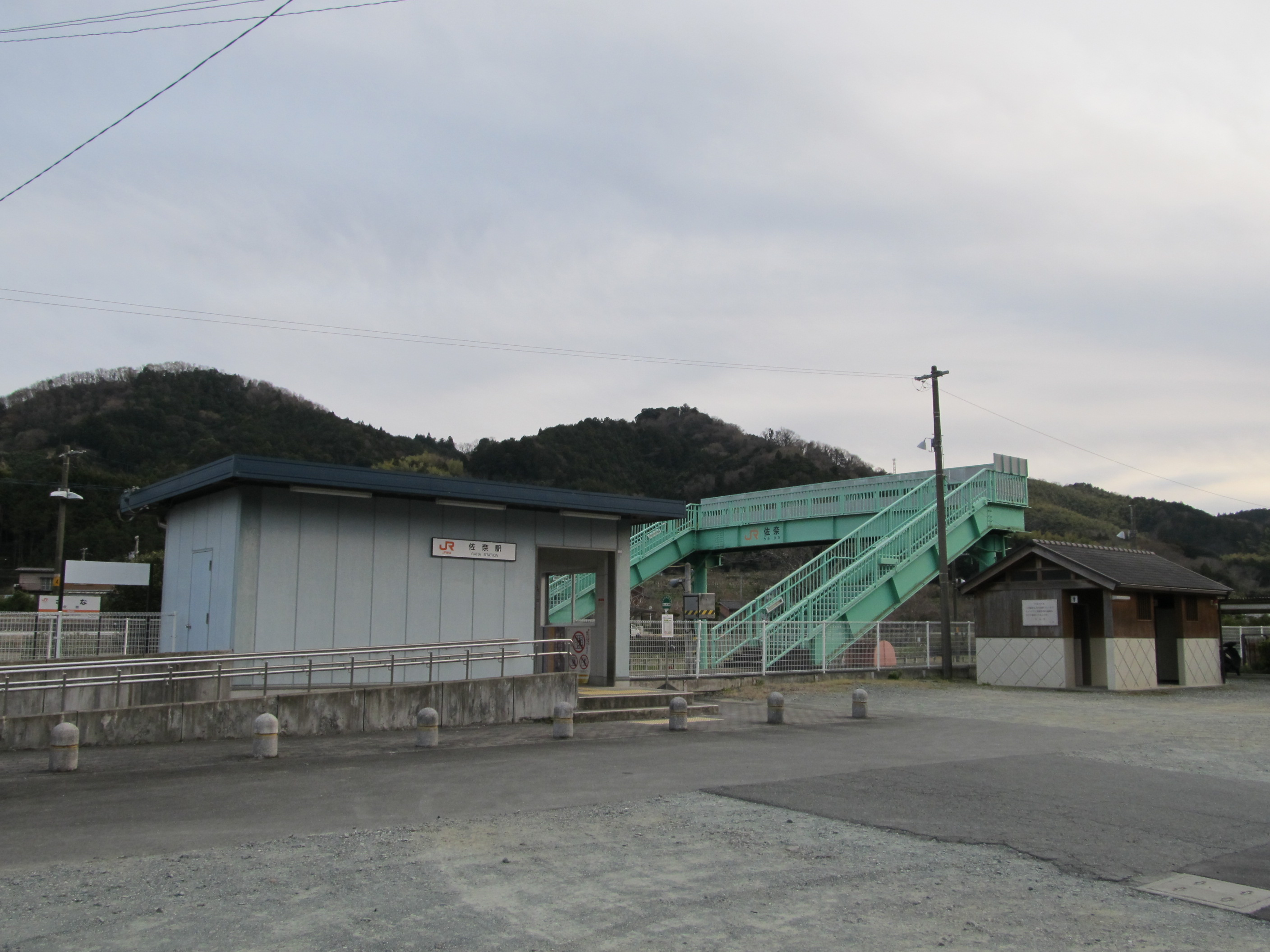 Central Japan Railway Kisei Line Sana Station Building